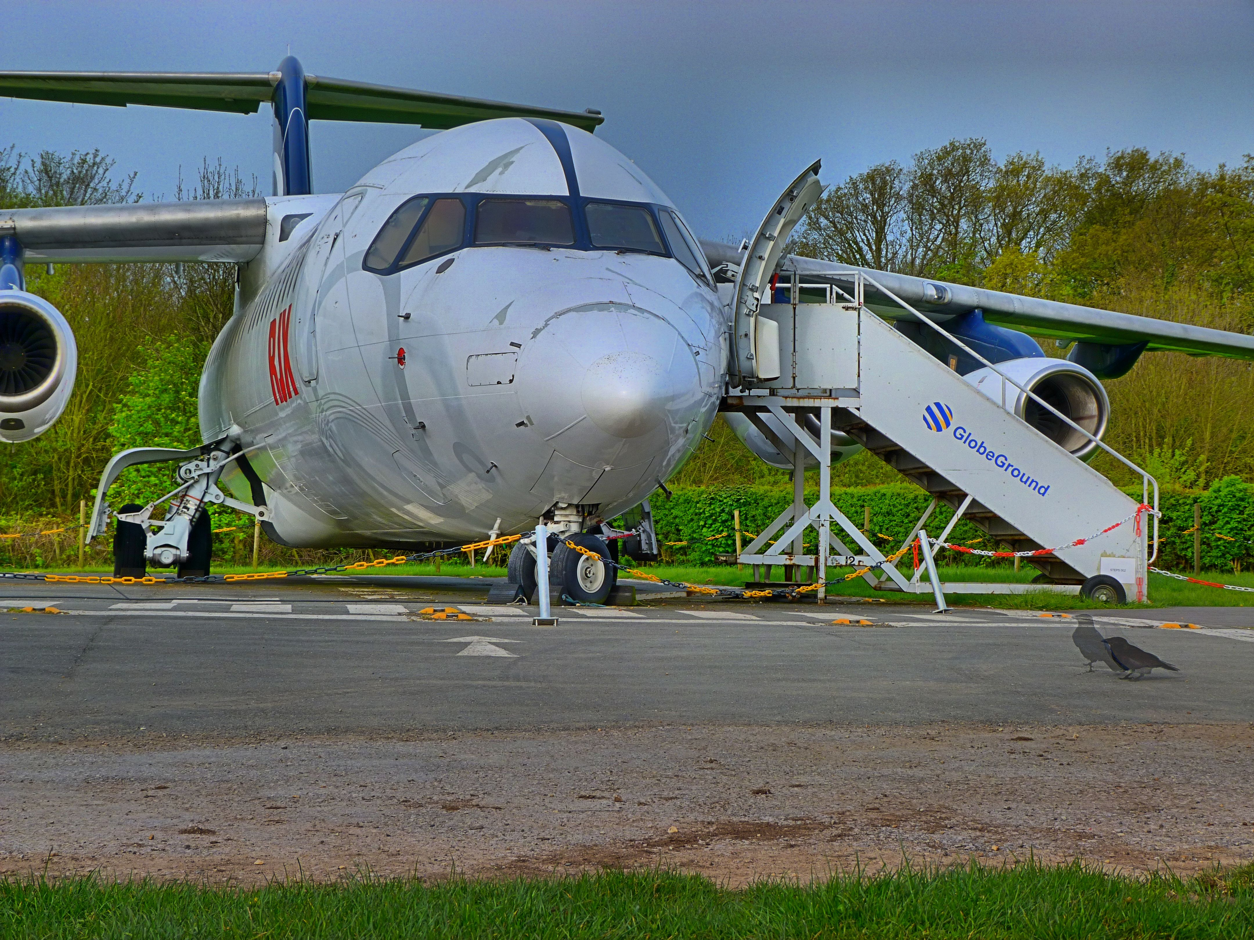 HDR using 3 shots (blackbird gives it away)